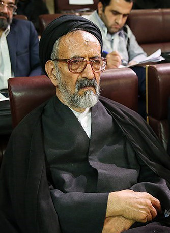 Mohammad Doaei in the National Congress of Moderation.